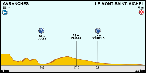 Tour de France 2013 - Profile Stage No. 11